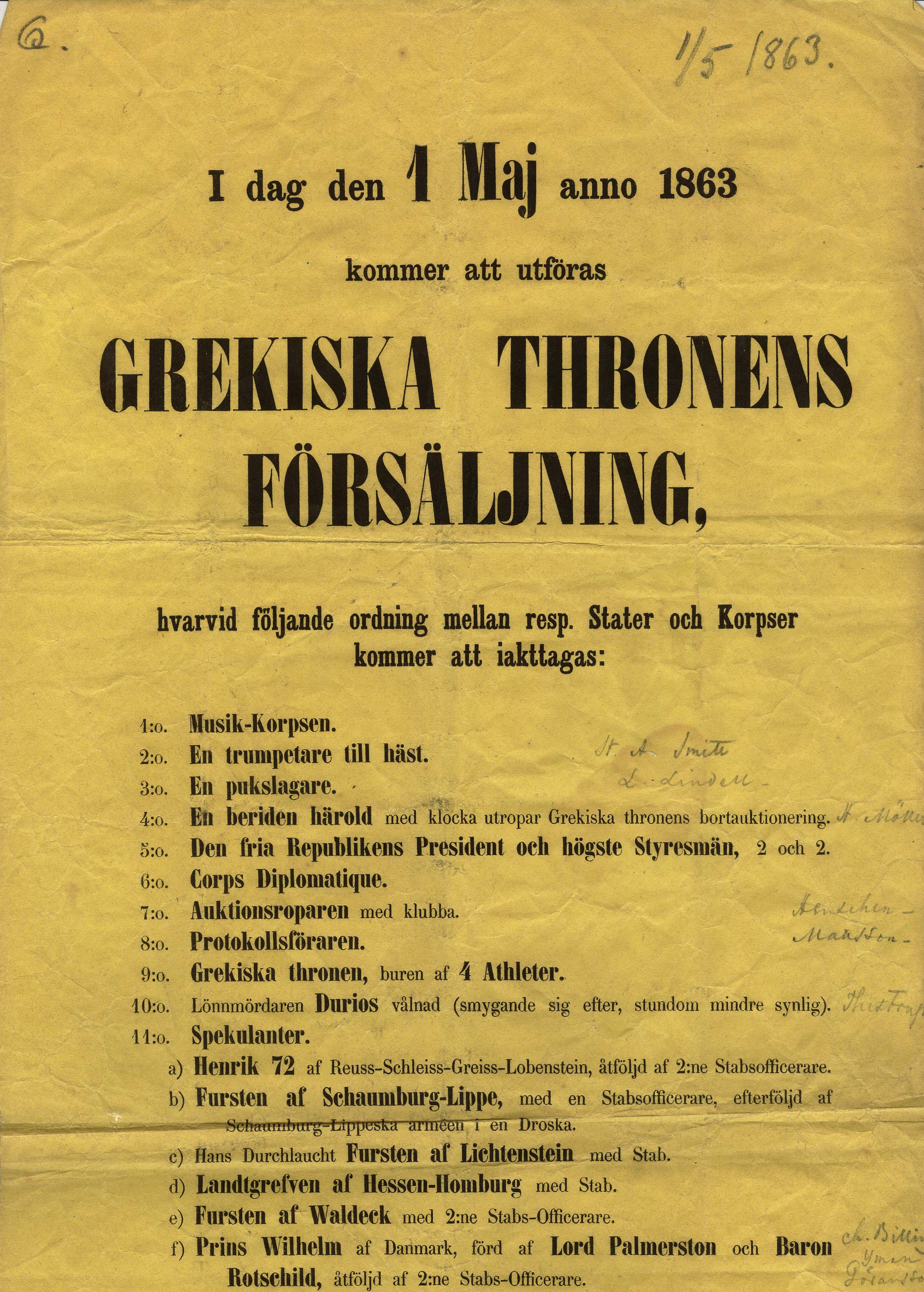 Part of the programme for Lundakarnevalen (the students' carnival in Lund) 1863. The theme of the carnival was "the sale of the Greek throne", an allusion to the vacant throne in Greece at the time.